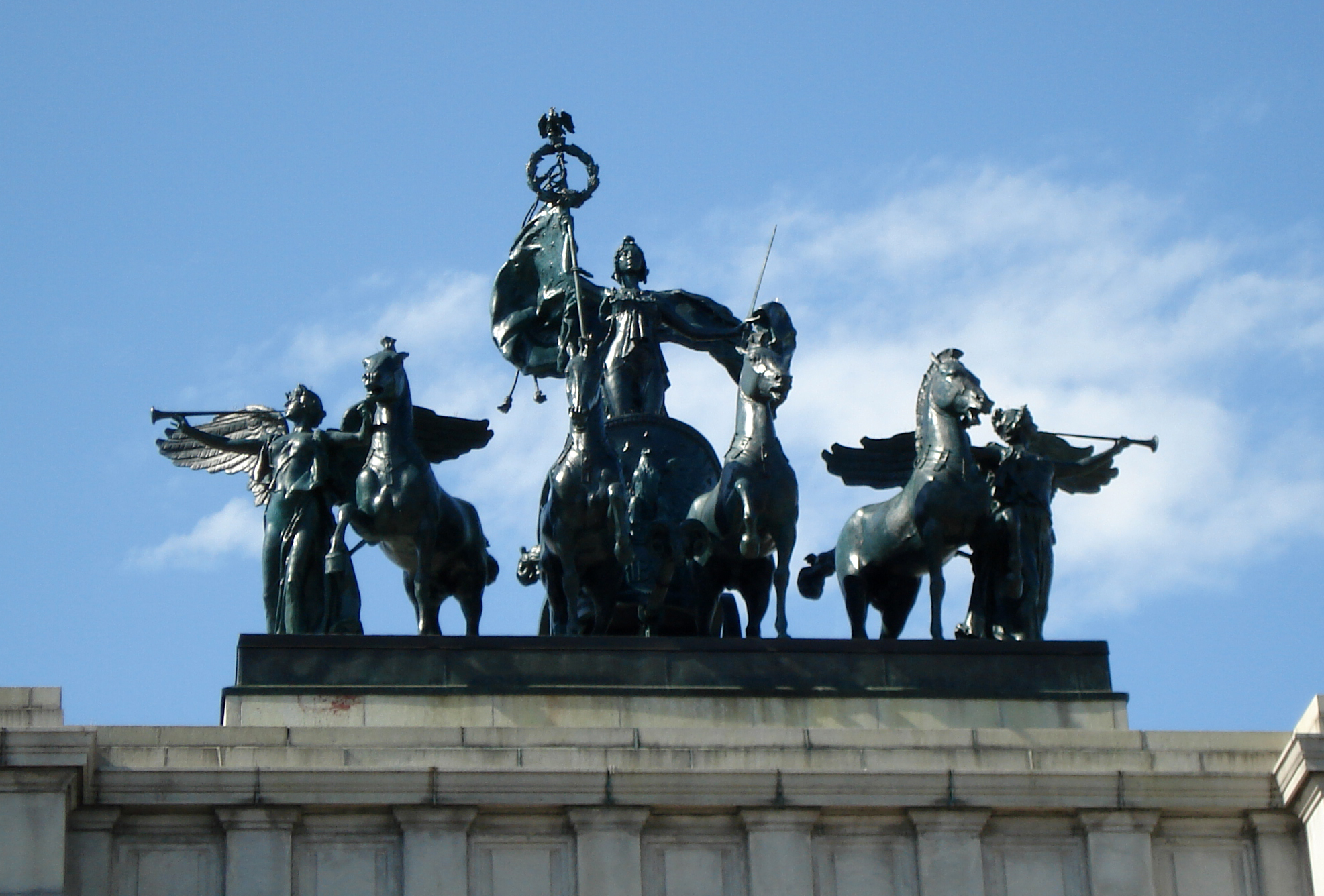 The Quadriga, representing Columbia flanked by Victory, atop the Soldiers' and Sailors' Memorial Arch at Grand Army Plaza in Brooklyn, New York City, sculpted 1894-1898 by Frederick MacMonnies. Copyright 2007 Jeffrey O. Gustafson, released to Wikimedia Commons under the GFDL and CC-BY-SA-2.0.